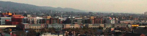 Bay Street Emeryville cropped from photo of Emeryville skyline.